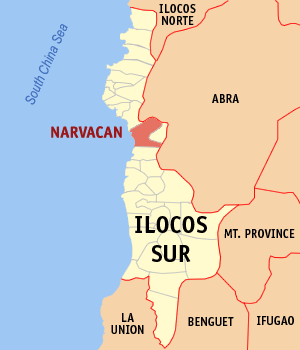 Map of Ilocos Sur showing the location of Narvacan